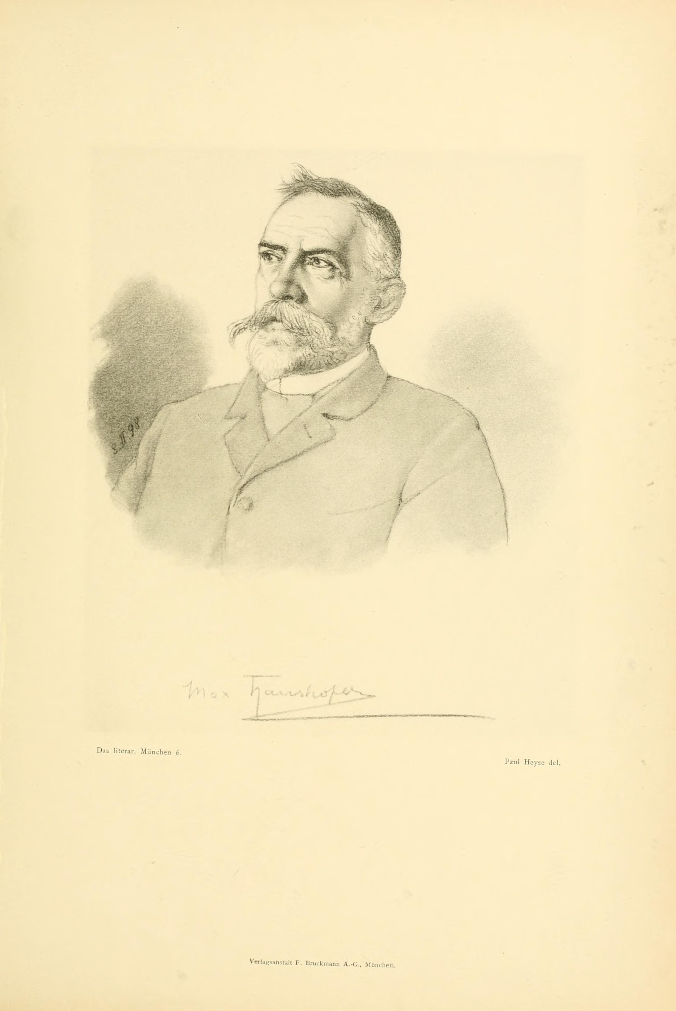 Max Haushofer (1840–1907)